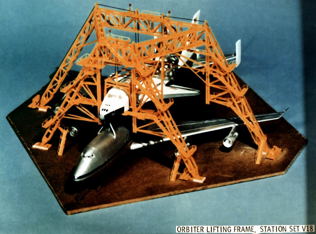 A scale model of a space shuttle orbiter lifting frame.